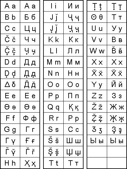 Wakhi alphabet